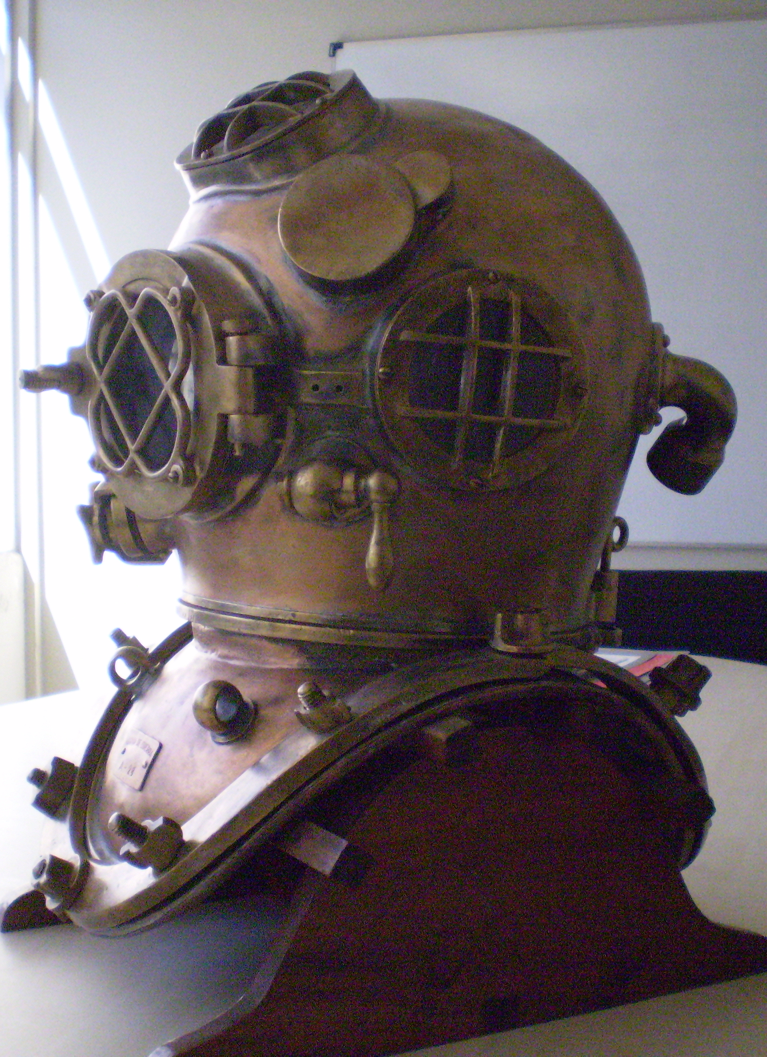 cropped three quarter right view of 12 bolt 4 light diving helmet